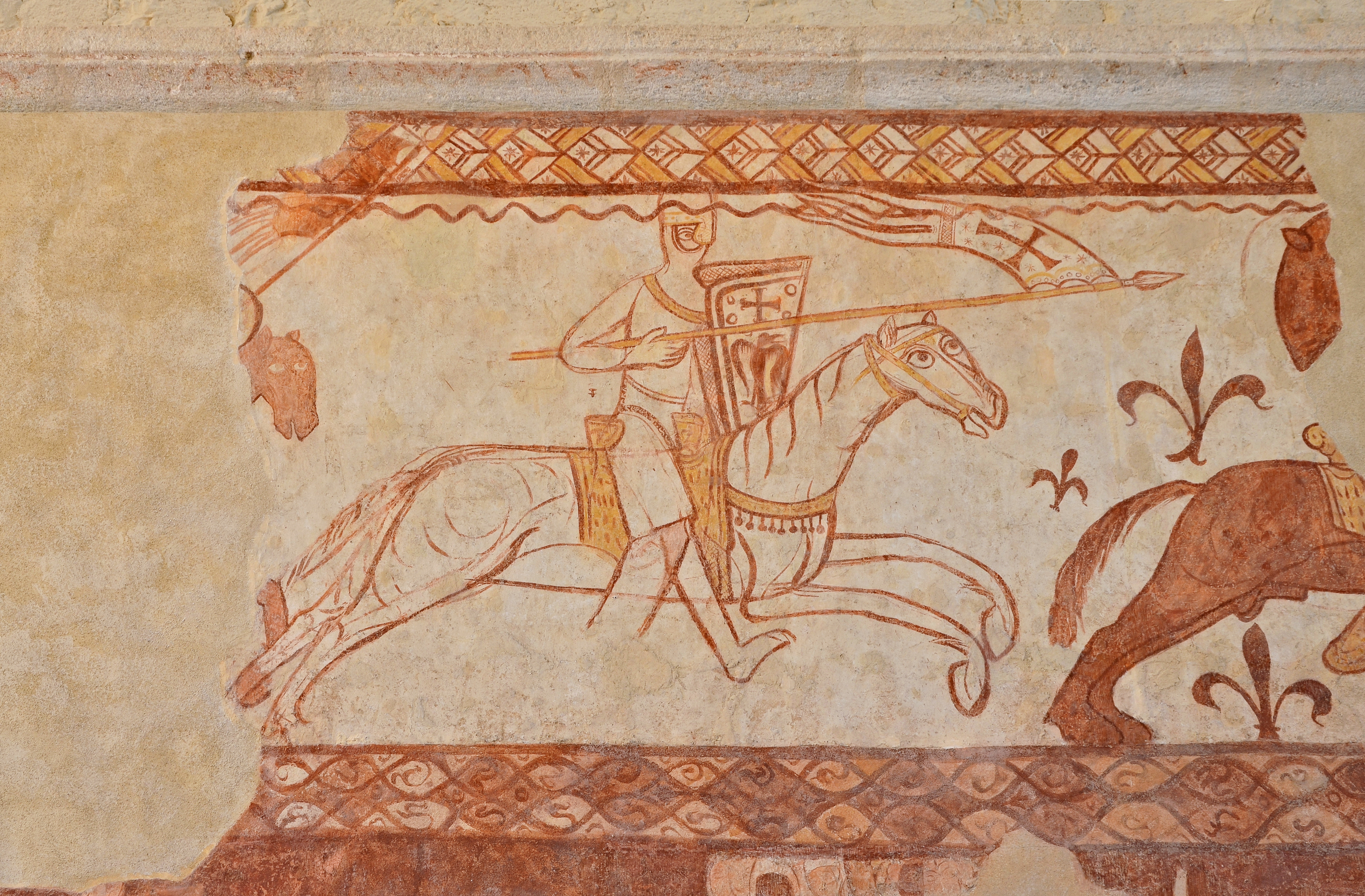 Knight of the Cross attacking Sarrazins at the battle of La Bocquée (1163), mural painting (end of the 12th century), temple of Cressac, Charente, France.